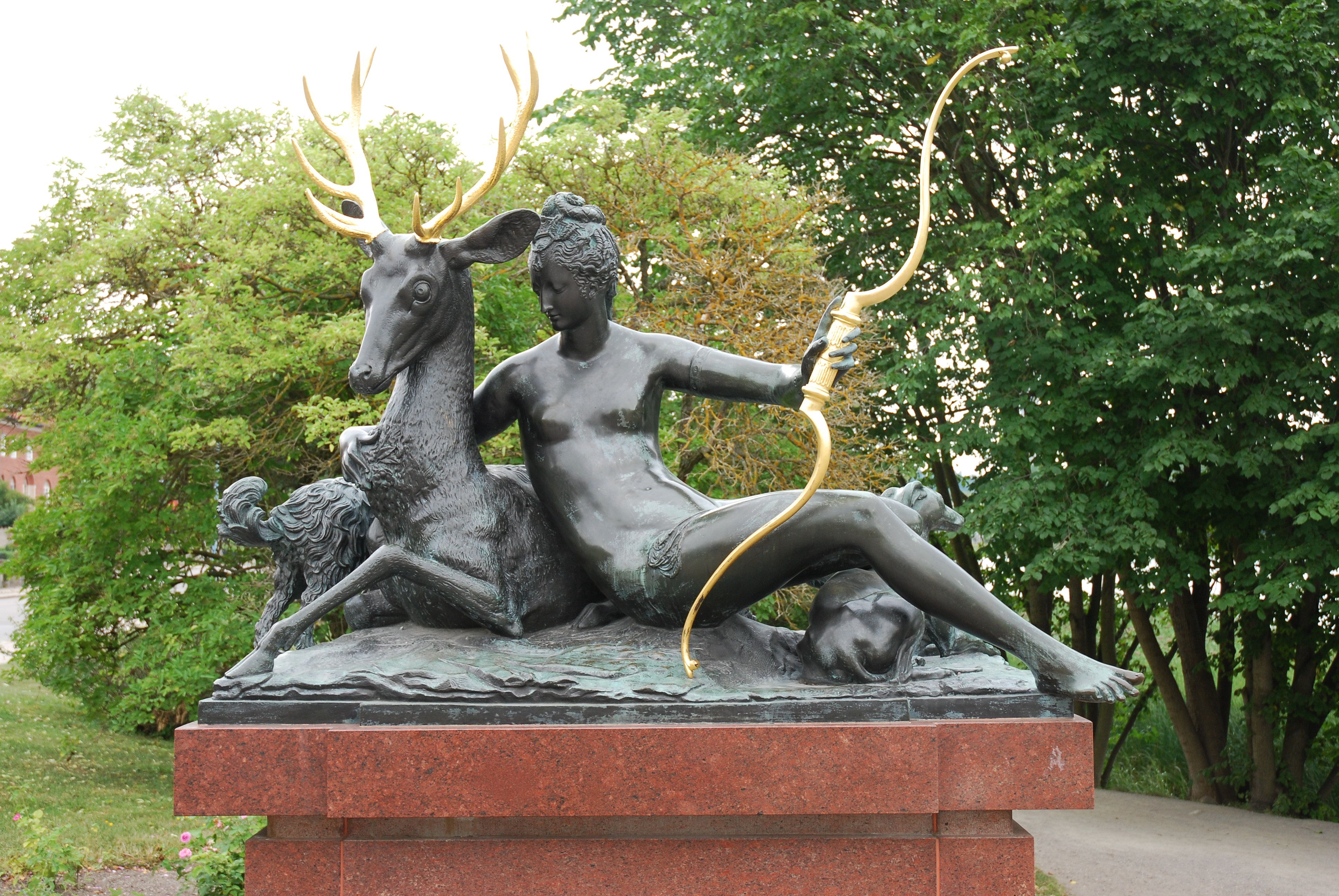 The bronze sculpture Diane appuyée sur un cerf (Diana with a Stag) by Jean Goujon c. 1549 in Nobelparken (the Nobel Park) in Stockholm, Sweden. This is a copy cast in the 60´s by Bergmans Konstgjuteri in Stockholm. Another copy was cast at the same time and is in the Musée du Louvre. The original in the Musée du Louvre was lost during World War II, and the copies were made from a marble copy ( in the Vatican) on the initiative of the Musée du Louvre. The orginal was commissioned by King Henry II of France for his maitresse Diane de Poitiers to be placed at the Château d'Anet.